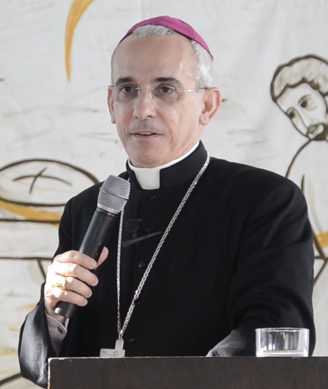 Henrique Soares da Costa, Bishop of Palmares, preaching in 2014.